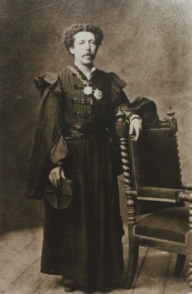 Sousa Martins after his professorship (1872) in the Medical-Surgical School of Lisbon.